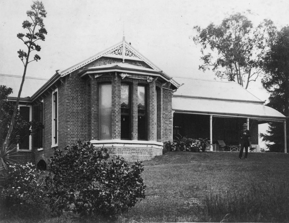 Baroona, a residence in Paddington, Brisbane, 1886 Taken from Baroona's garden looking towards the drawing room. An unidentified man is standing on the grass by the verandah.